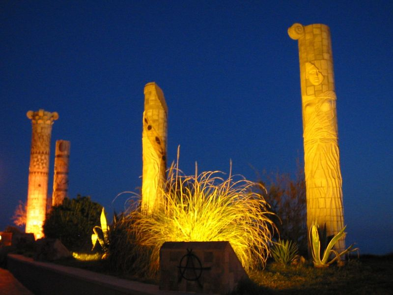 Monument to Mediterranean Cultures on Punta Margalla